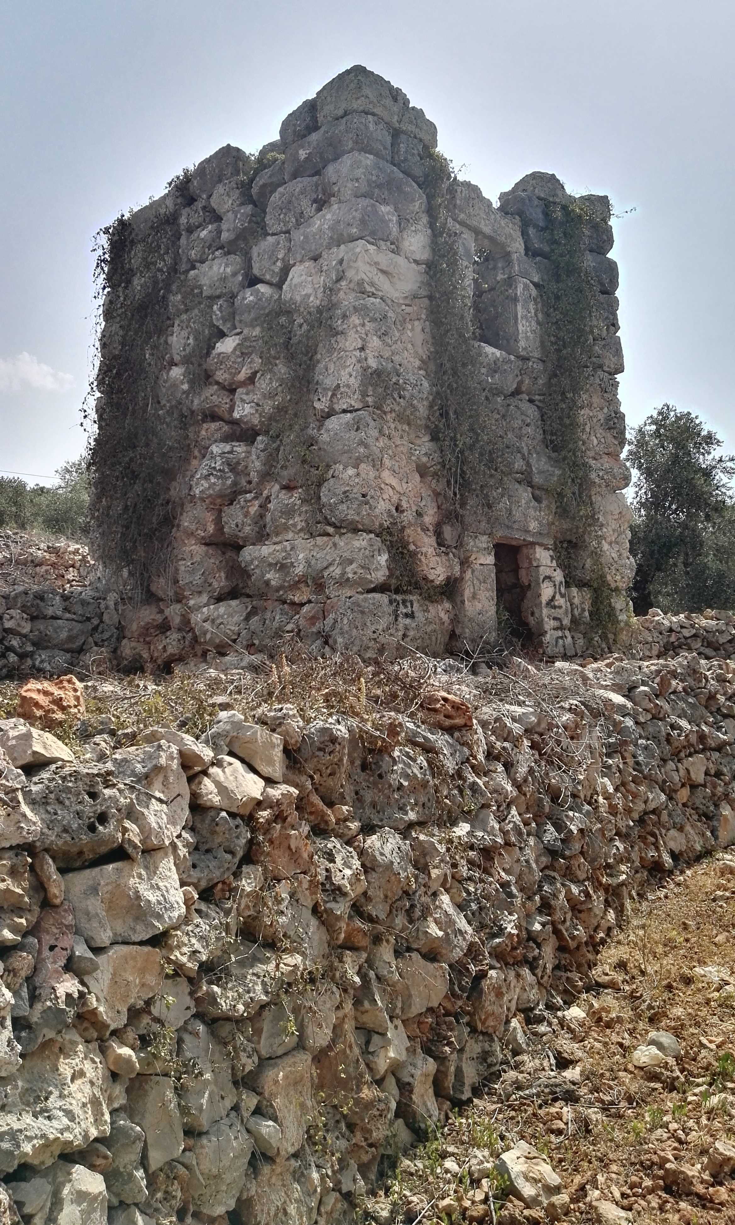 Remains of an ancient guard tower known as Qasr Mansura, near Qarawat Bani Hasan, West Bank, Palestine.